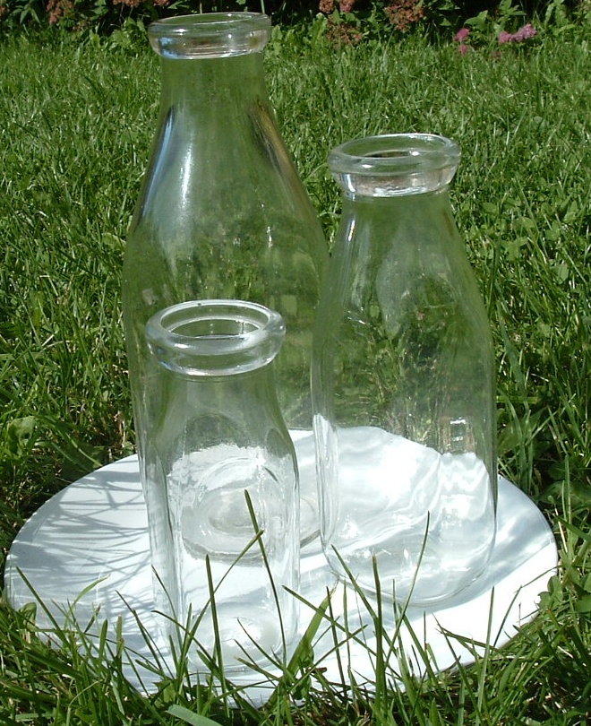 Canadian glass milk bottles which were used circa 1950. One quart (1.14 l), one pint (0.57 l), both used for milk, and a half-pint (0.285 l), used for cream